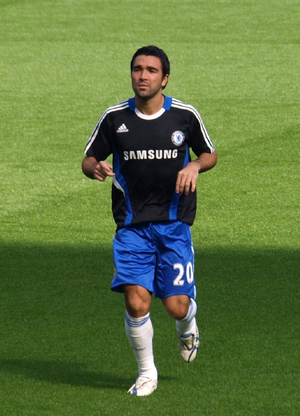 Deco, Portugal and Chelsea midfielder